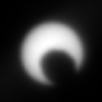 A transit of Phobos from Mars: Phobos is in transit across the Sun, as seen from Mars by MER Opportunity on March 10, 2004, at 07:36:38 UTC Earth time. In the photo, the Sun has angular diameter 20.5' while Phobos has angular diameter of 15.1'. Deimos by contrast usually has an angular diameter of about 2.3' as seen from Mars. Phobos took about 32 seconds to transit the Sun.